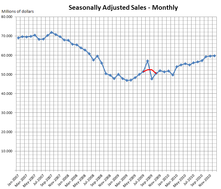 The red line simply averages the sales for the month of the clunkers program (August) and the month after. Spreadsheet: Source: US Census Retail Trade Report, Category 4411 and 4412